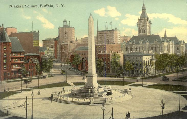 Niagara Square, Buffalo, New York; from a c. 1912 postcard.